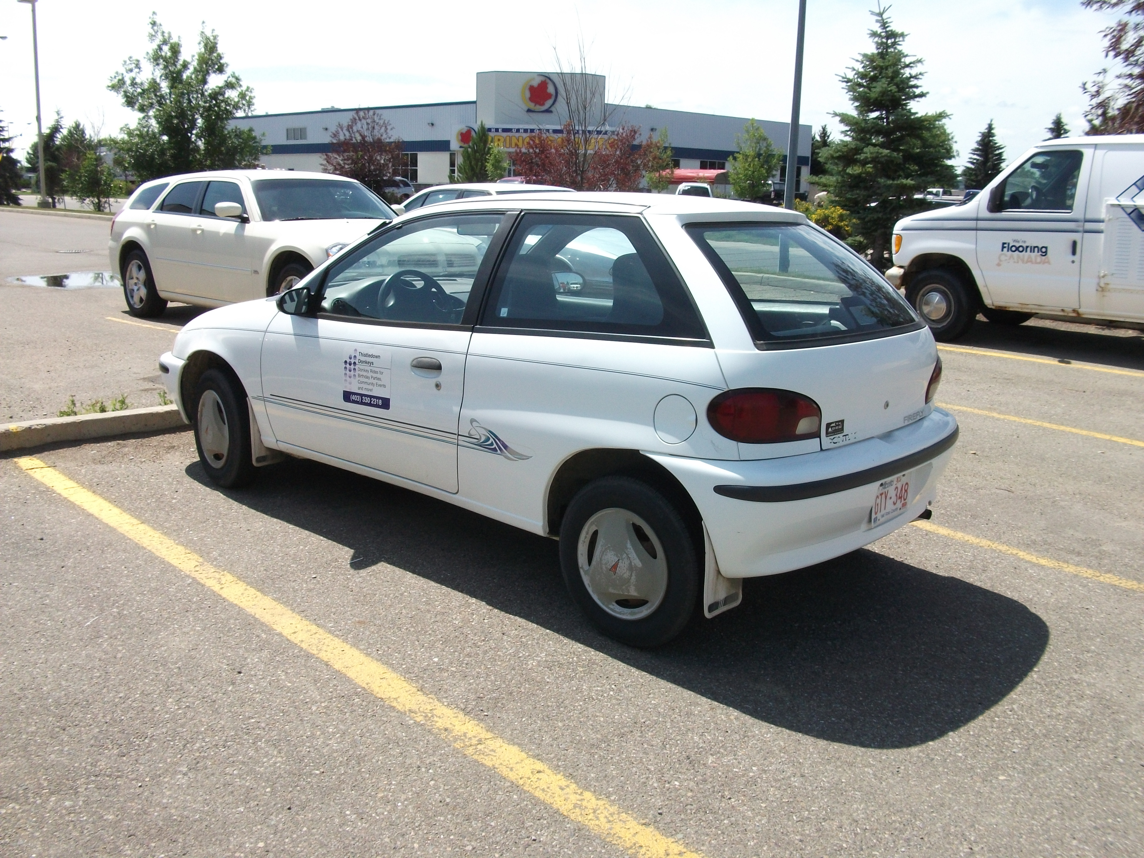 A second generation Pontiac Firefly which is a badge engineered version of the Suzuki Swift/Chevrolet Spring/Geo Metro/etc made for Canada only.